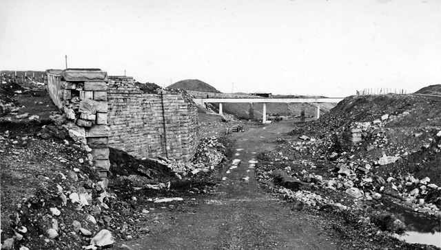 Route of former Abergavenny - Merthyr railway being incorporated in new A465 Heads of Valley road at Dowlais Top. Precise location and direction uncertain, but believed to be westwards, with the bridge abutments of the former Bargoed - Pant section of the old Brecon & Merthyr Railway (closed August 1963) in foreground.